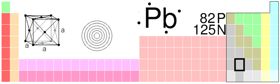 Image by Daniel Mayer or GreatPatton and released under terms of the GNU FDL